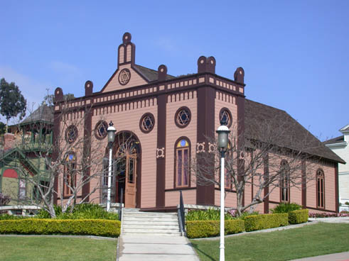 SOHO temple beth